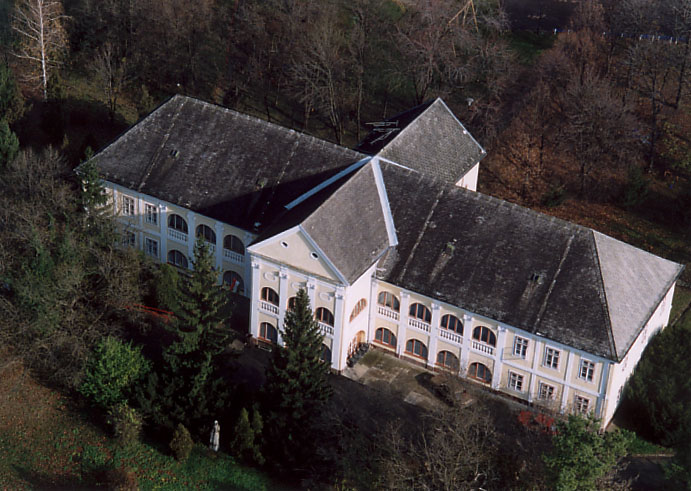 Palace - Sály - Hungary - Europe